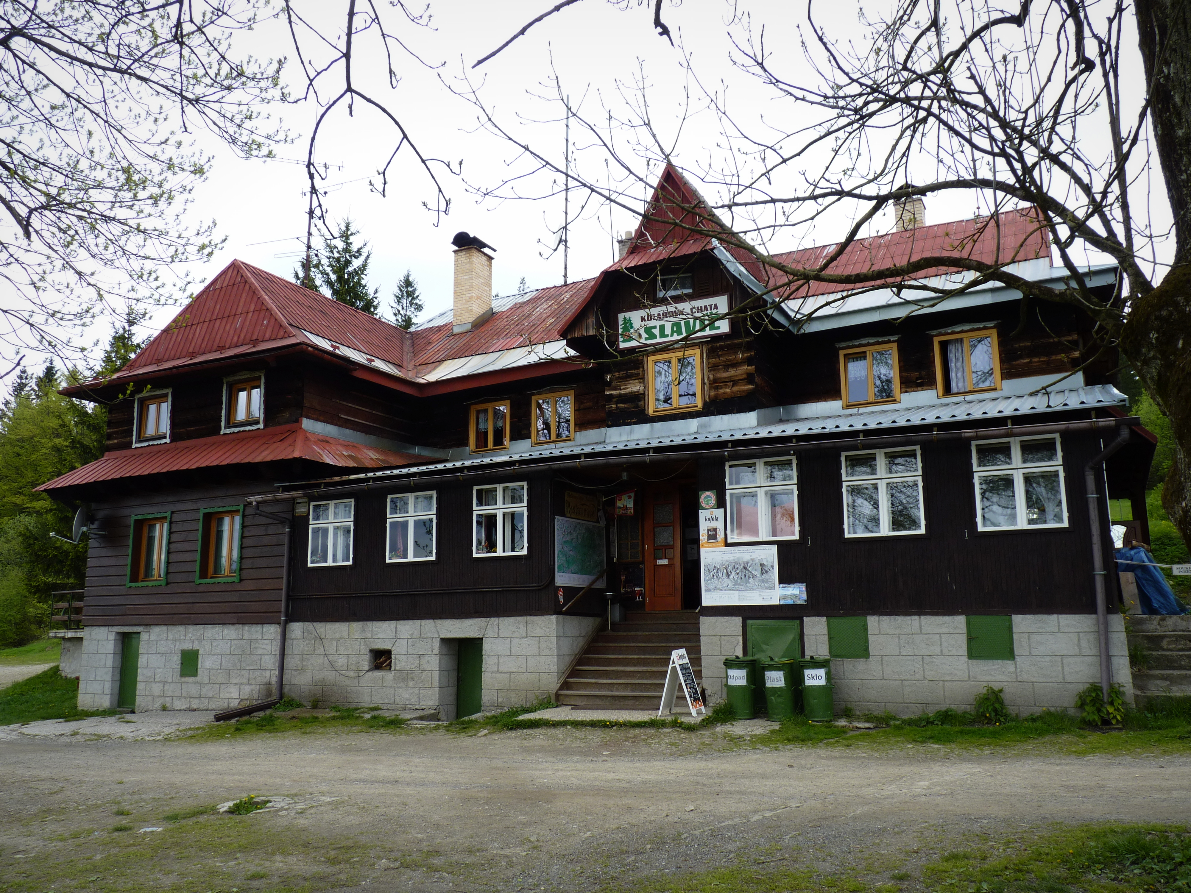 Moravian-Silesian Beskids, Moravian-Silesian Region, Czech Republic Project: Chráněná území